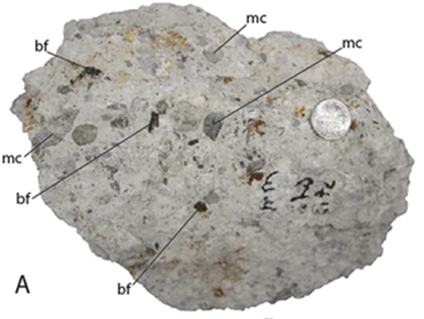 Fig 10. Sedimentary matrix entombing fossils from FMNH Locality UT080821-1. (A) Bottom view of sediment sample showing texture from near base of entombing layer. Note the black bone and higher amount of grey rip-up clasts. (B) Top view of sediment sample showing texture from near top of entombing layer. Note the near absence of bone, fewer rip-up clasts and generally cleaner appearance of the sediment. (C) Side view of sediment sample showing vertical change in entombing layer. Sample is oriented with the upper layer pointed toward to top of the figure. Abbreviations: bf, bone fragment; mc, mud clast. Scale bar equals 18 mm.